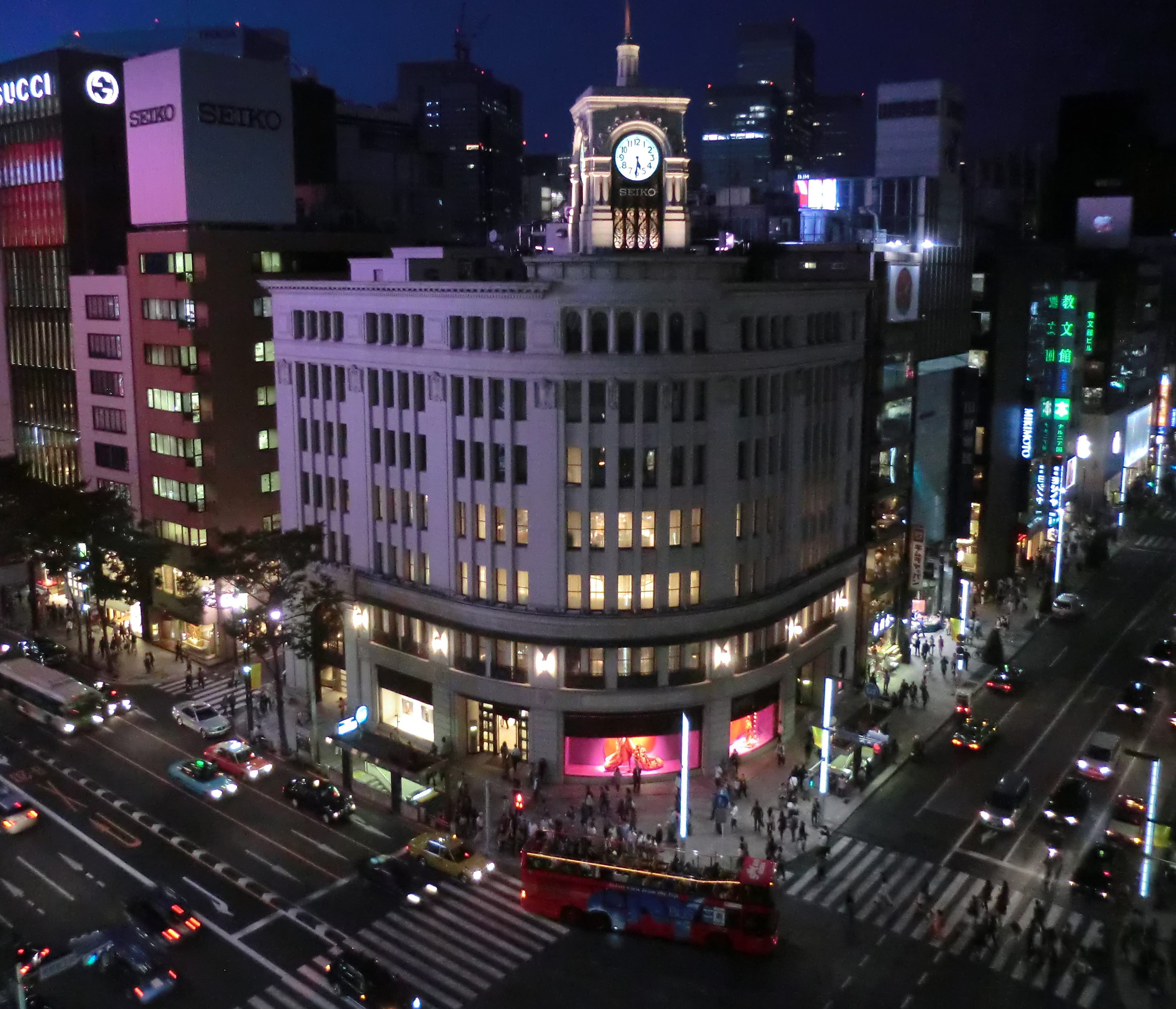 Wako in 4, Ginza crossing dusk